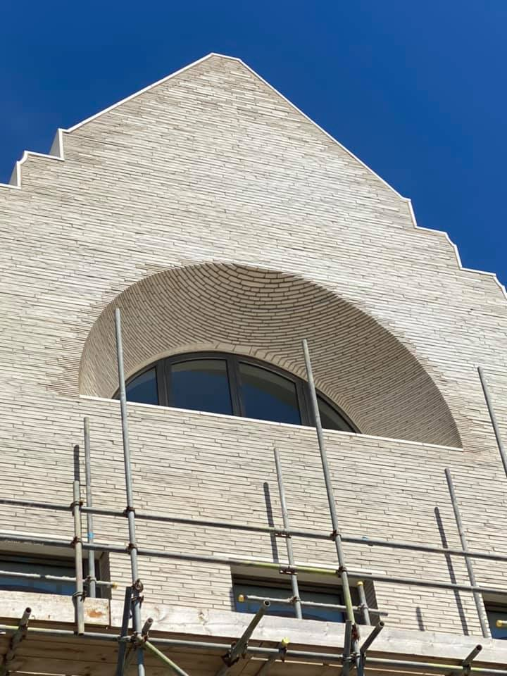 A partial unveiling of the newly constructed gable at Media House